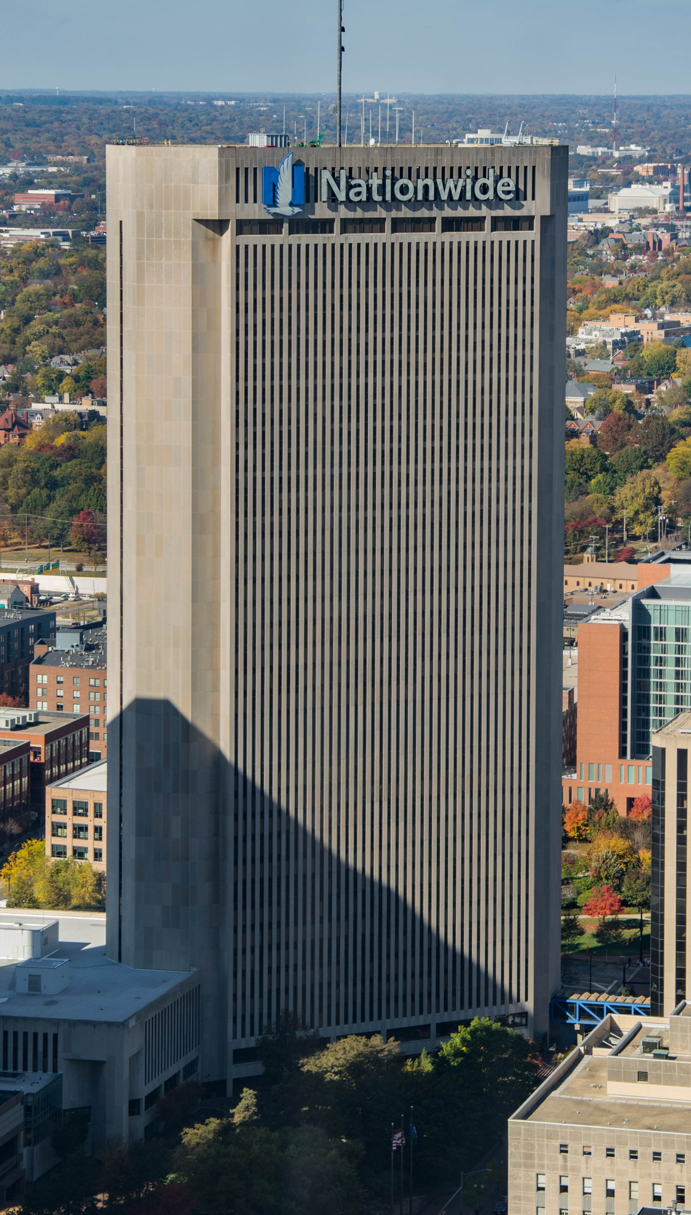 One Nationwide Plaza viewed from Rhodes State Office Tower.